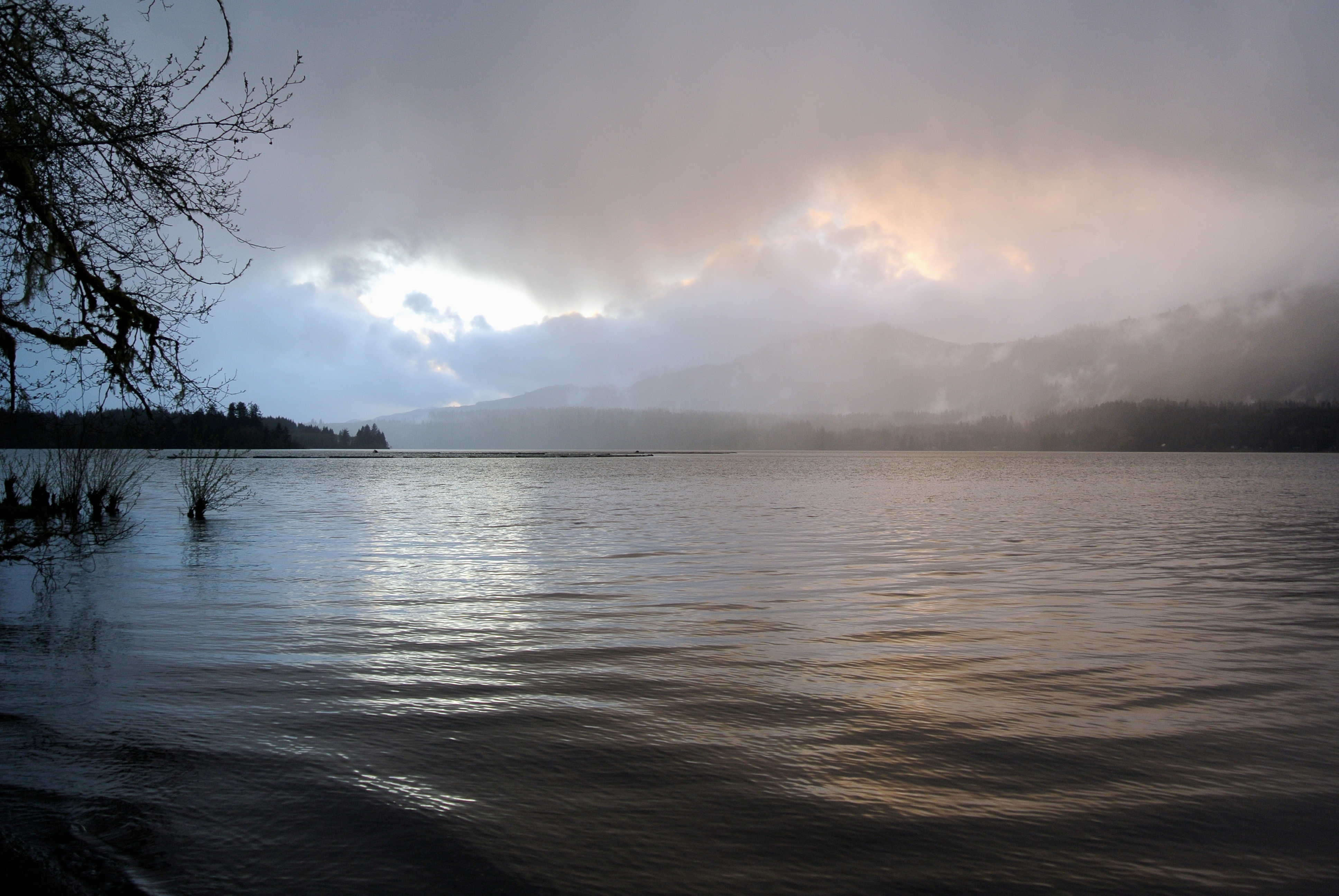 Lake Quinault in the mist at sunset, Olympic National Park.